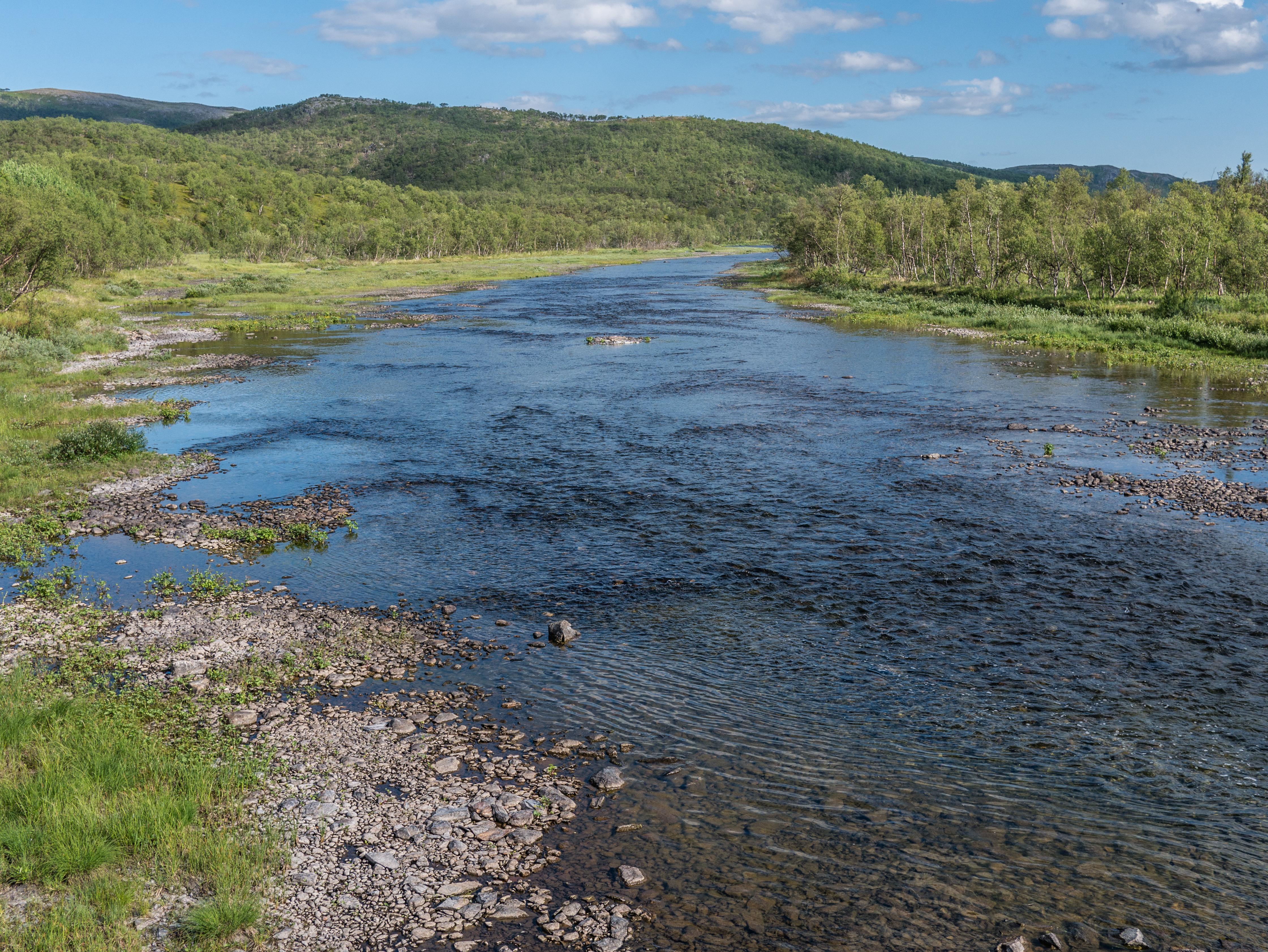 Looking upriver on the Adamsfjordelva